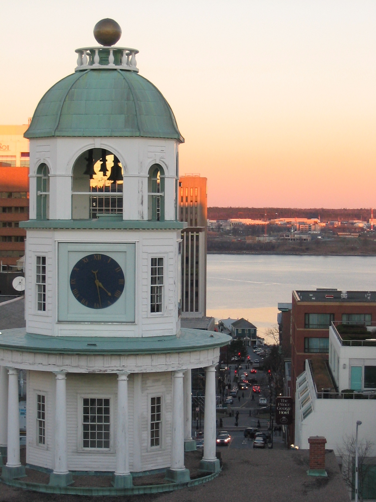 Town Clock at Sunset